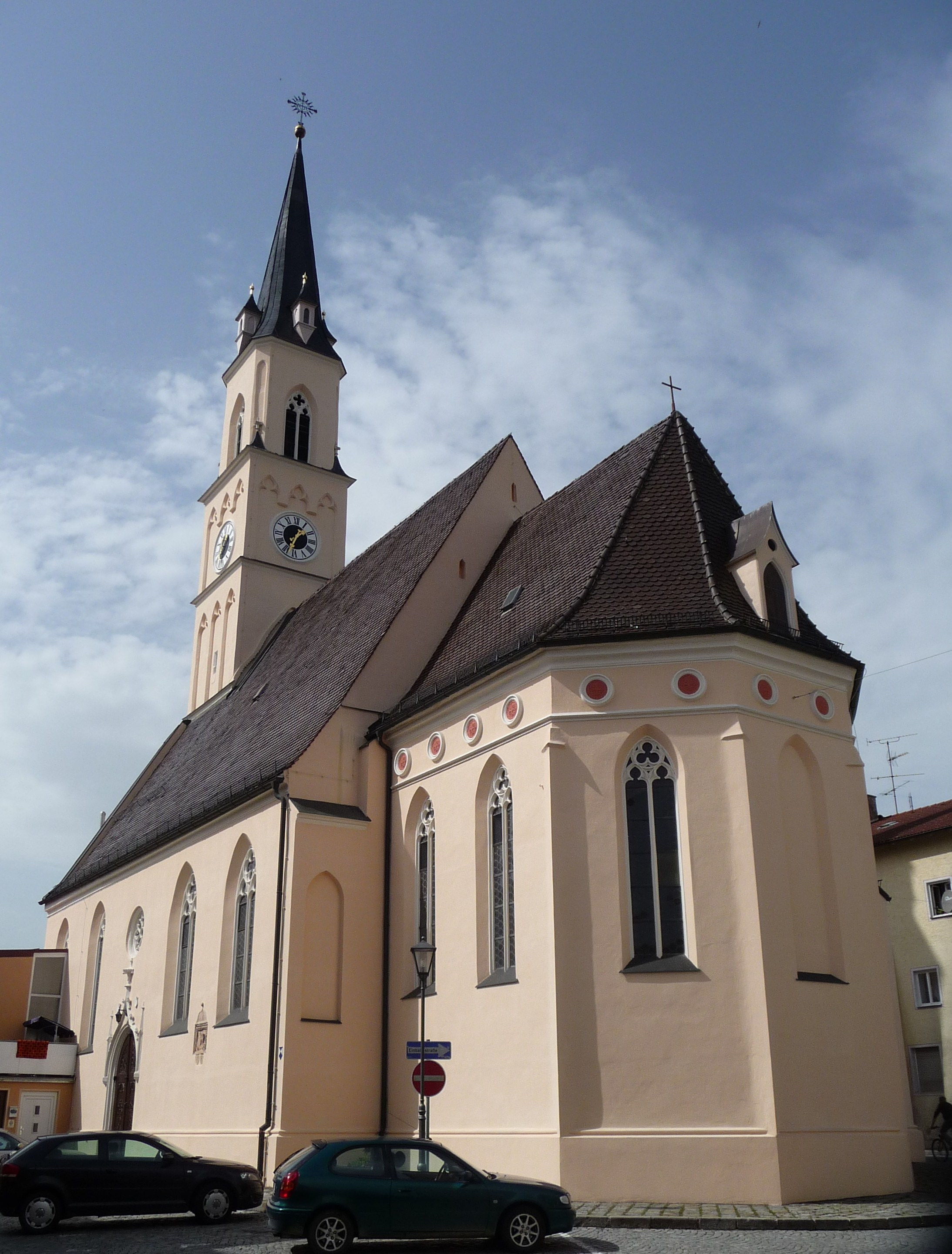 Neumarkt-Sankt Veit, exterior view of St John the Baptist's Subsidiary Church facing west.